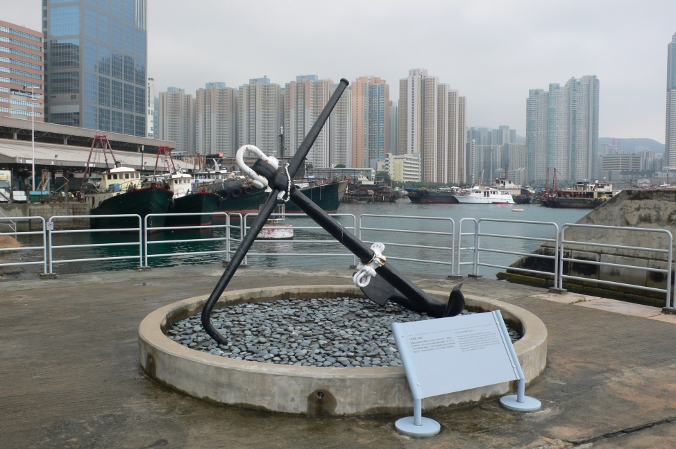 The Anchor of HMS Tamar, now placed in Hong Kong Museum of Coastal Defence